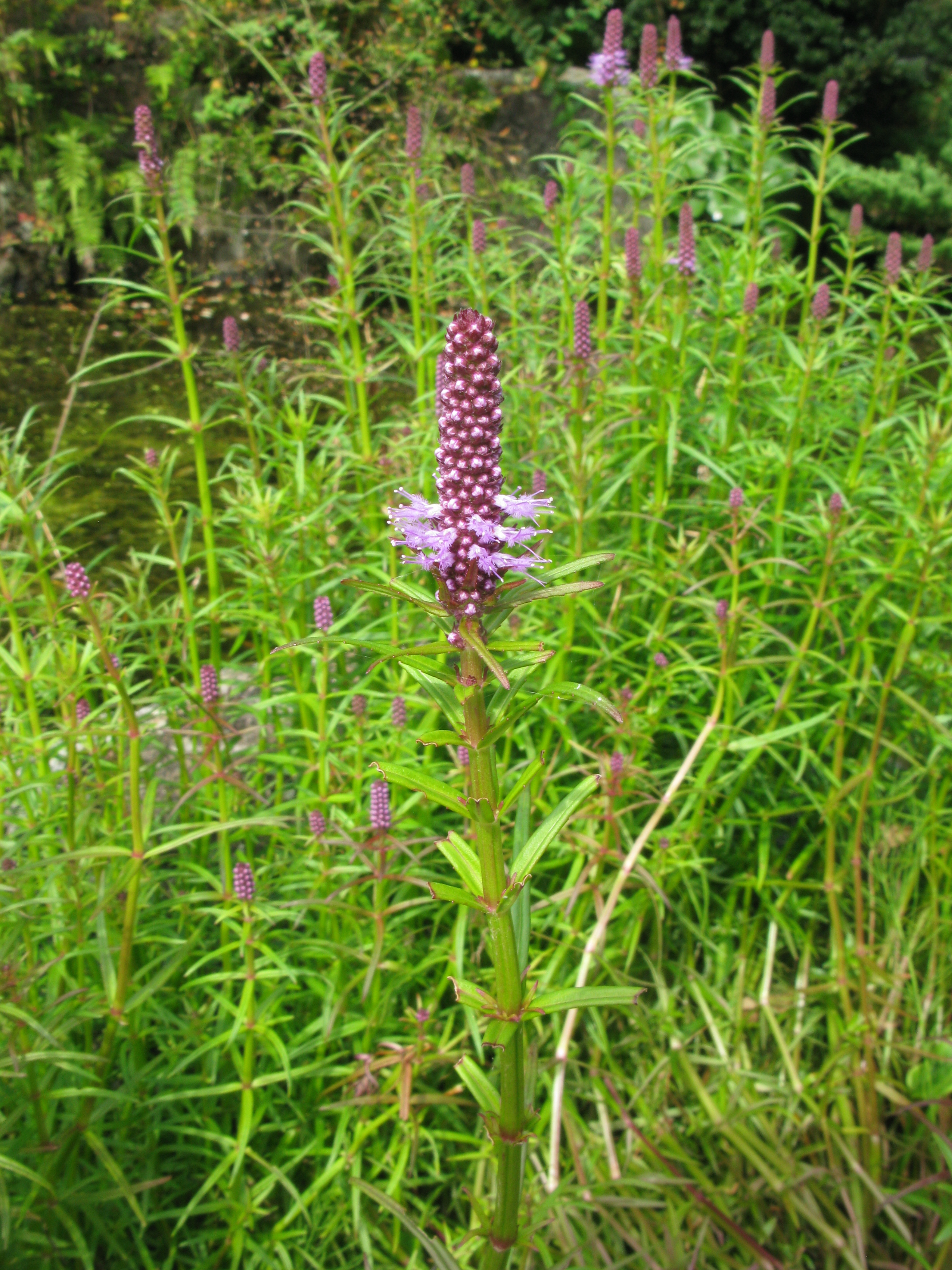 Pogostemon yatabeanus, Tsukuba Botanical Garden, Ibaraki pref., Japan